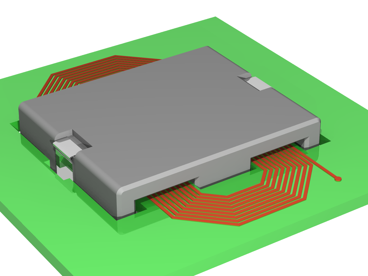 a planar inductor constituted by a spiral track on a printed circuit board and a planar magnetic core